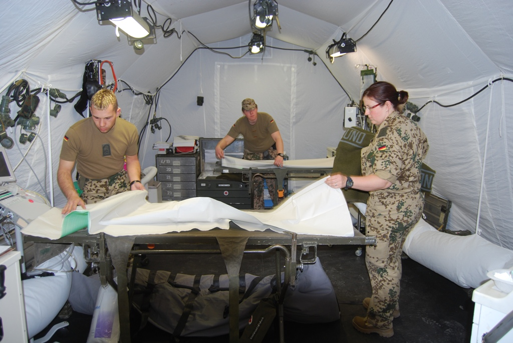 The Hungarian-German PRT demonstrated a medical evacuation as part of a medical exercise at Camp Pannonia.